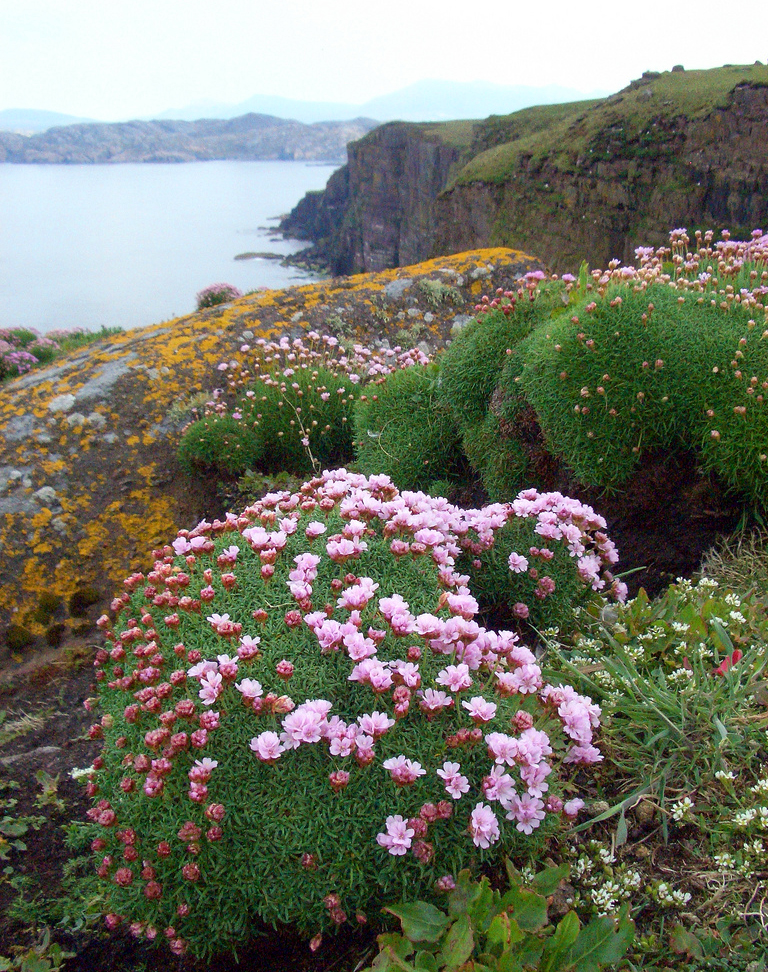 Handa Island, Scottish Wildlife Trust reserve